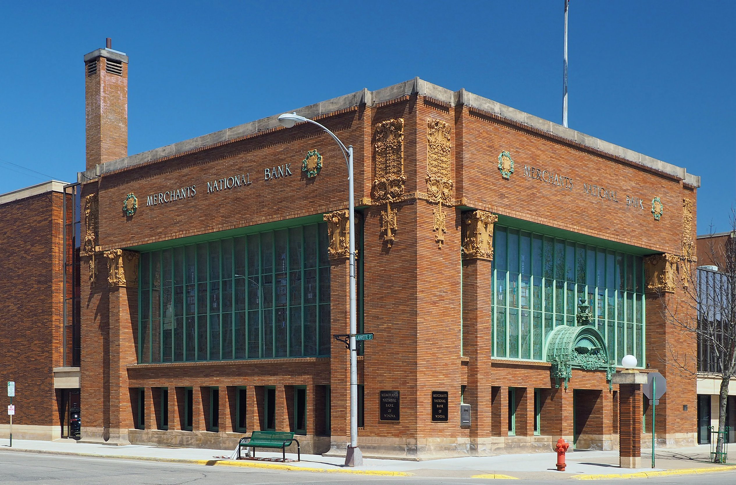 Merchants National Bank, 102 E 3rd St, Winona, Minnesota, USA. Viewed from the southwest.